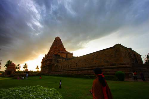 Gangai Konda Cholapuram Temple, an architecture marvel of the Cholas